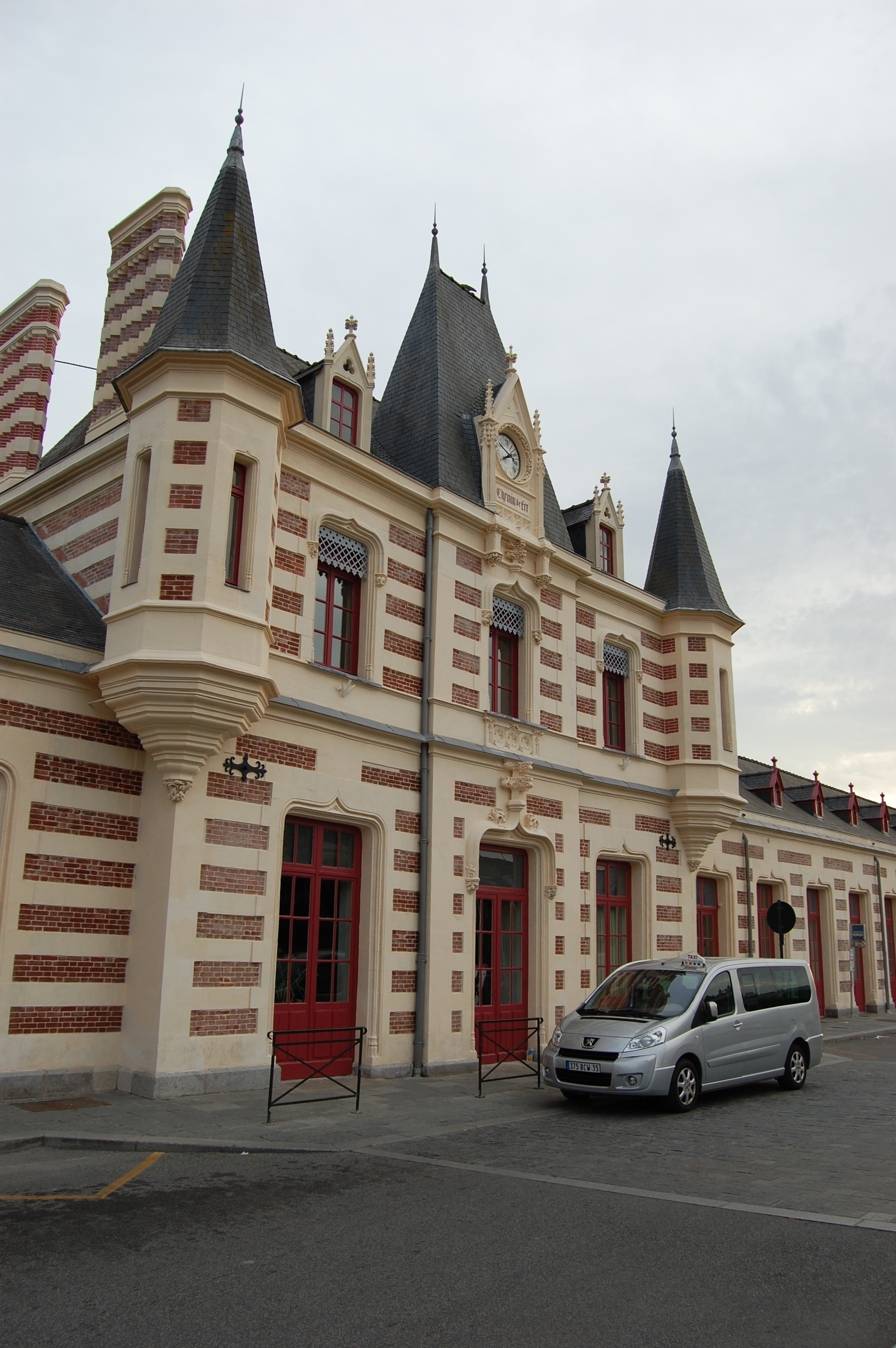 Vitré train station